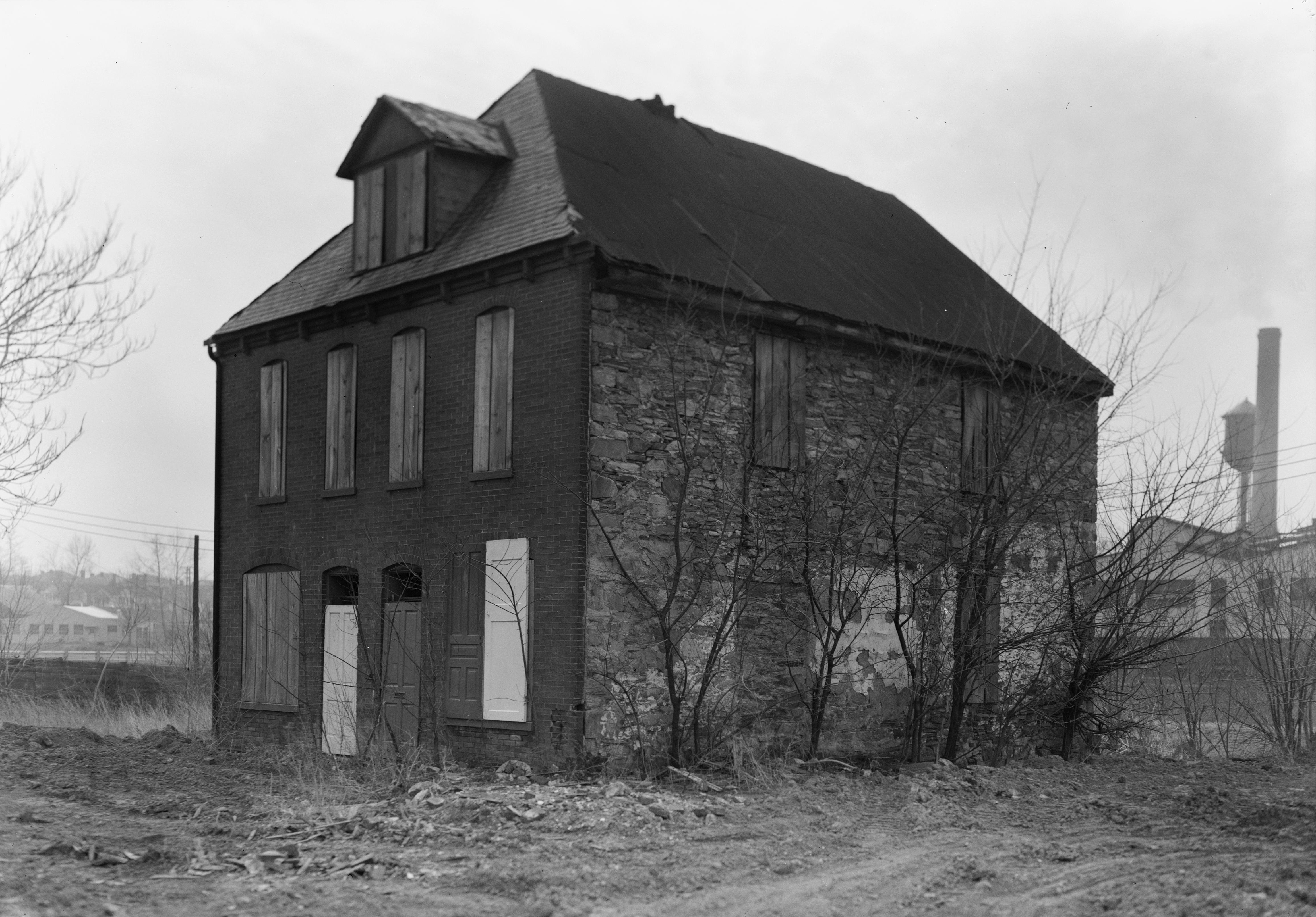 Western and northern sides of the Cookes House (also known as "Tom Paine's House"), located at 438-440 Codorus Street in York, Pennsylvania, United States. Built in 1761, it was used by members of the Second Continental Congress during the period that it met in York; Thomas Paine is reputed to have stayed there. The house is listed on the National Register of Historic Places.